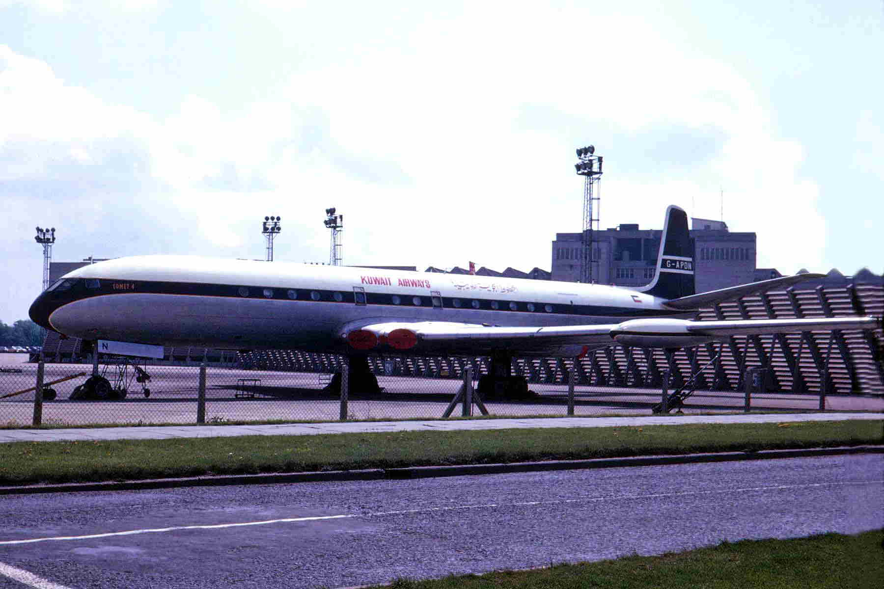 De Havilland Comet at London Heathrow Airport